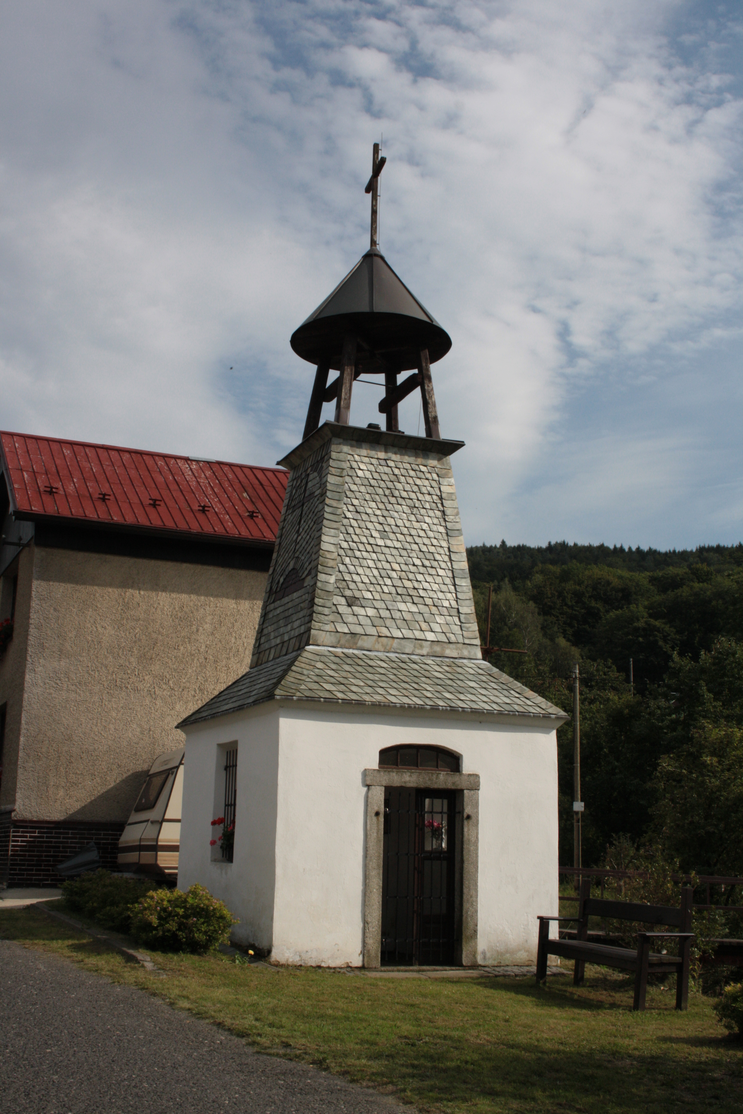 This photograph was taken with a DSLR from WMCZ's Camera grant. Zvonička ve Fojtce (pohled od severozápadu).